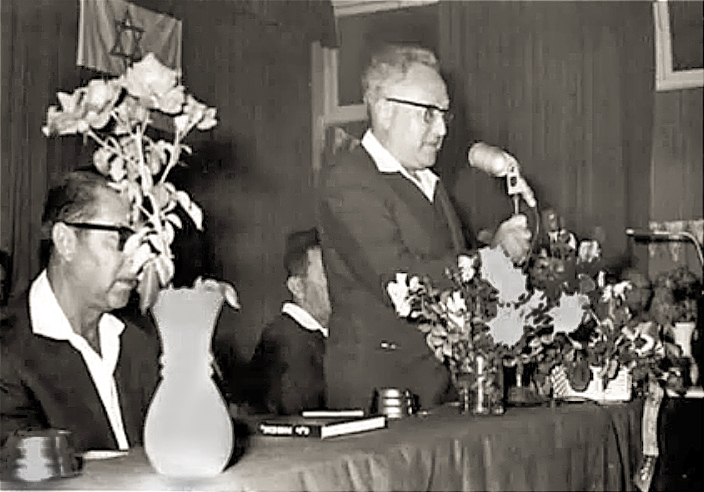 Mayor's speach, Cities in Israel